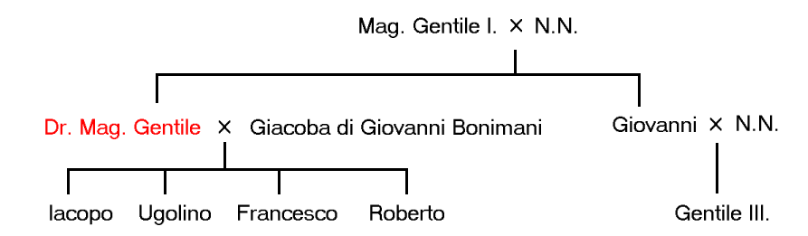 Genealogy of Gentile da Foligno, based on Placido T. Lugano: Gentilis Fulginas Speculator e le sue ultime volontà, in: Bollettino della Regia Deputazione di storia patria per l'Umbria 14,1 (1908), S. 195-260